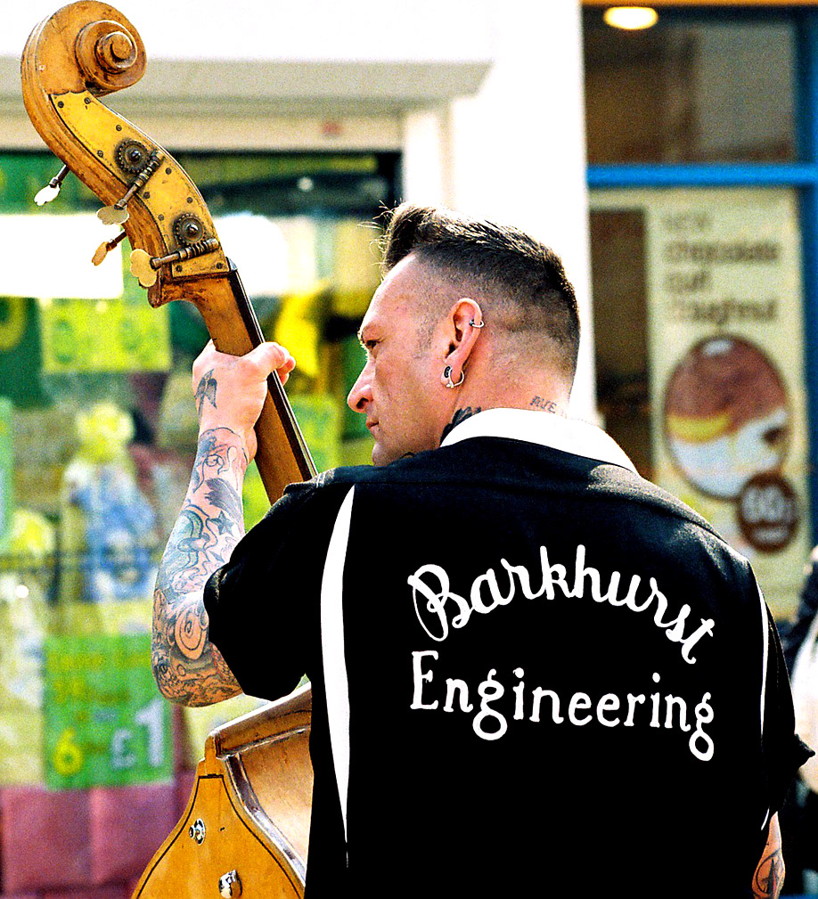 Rockabilly dude.